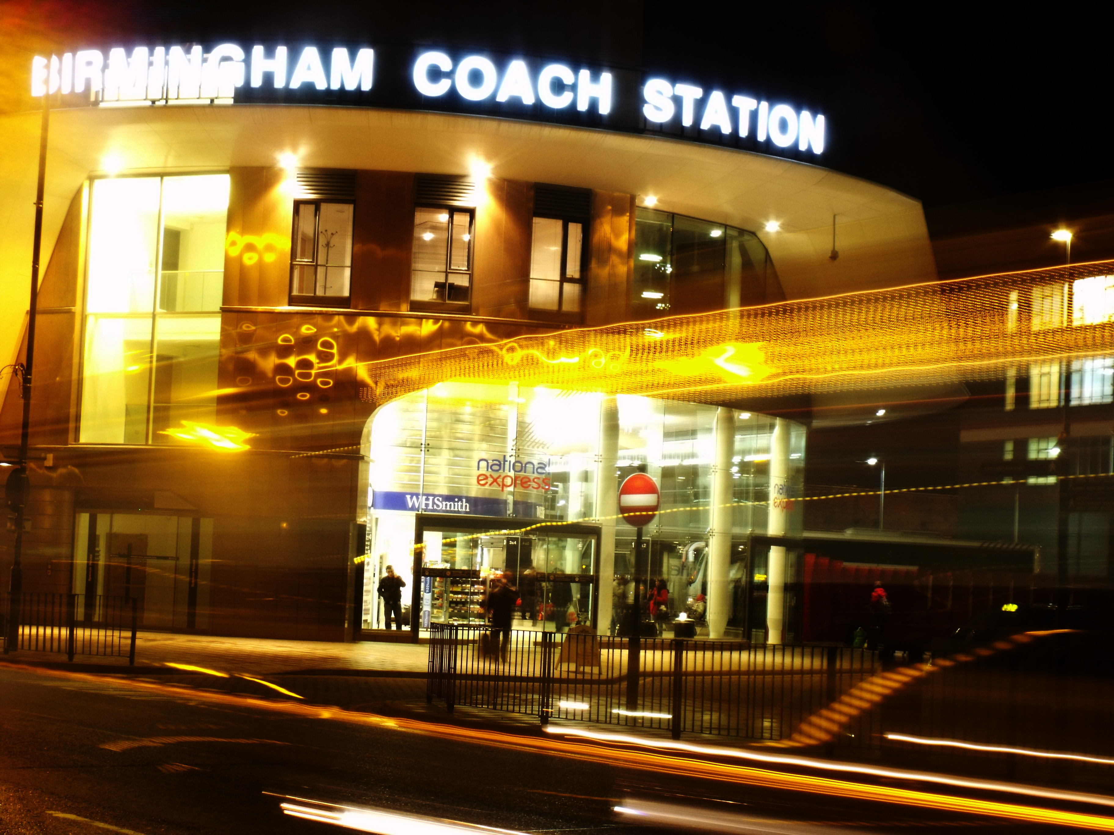 Birmingham Coach Station by night.